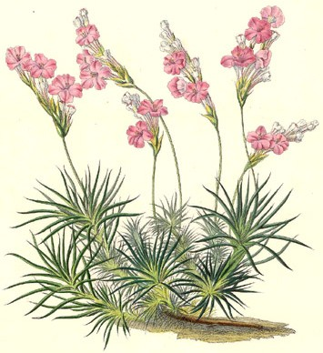 Acantholimon glumaceum; Hand-coloured lithograph